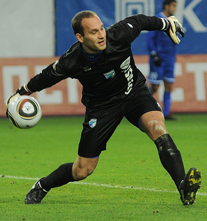 Petr Vašek with FC Sibir Novosibirsk